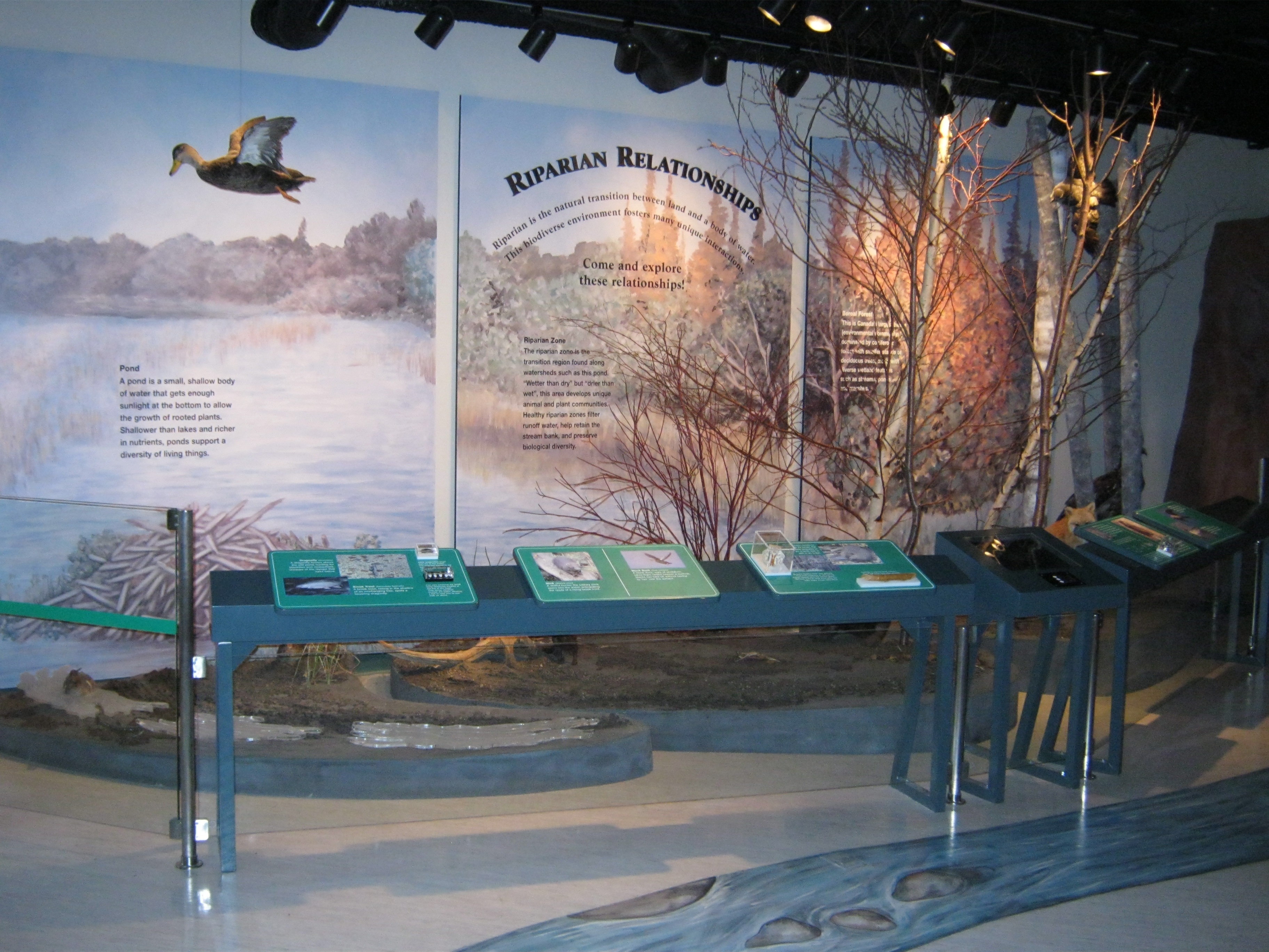 Riparian Zone Exhibit at the Fluvarium, St. John's, NL, Canada.